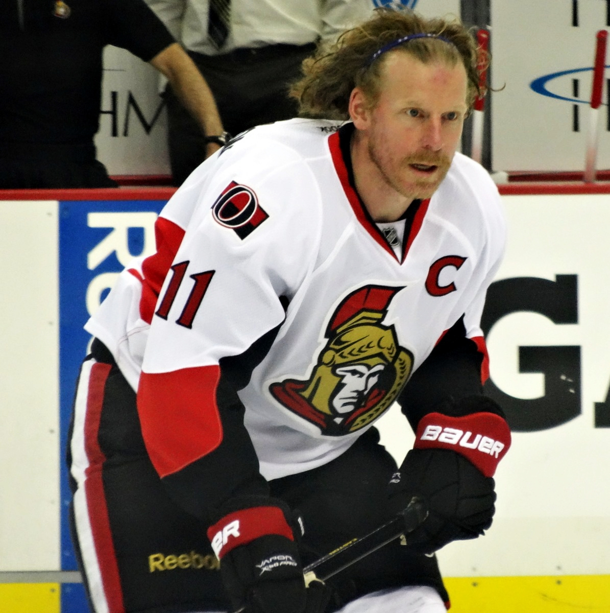 Ottawa Senators forward Daniel Alfredsson during game five of their second round series against the Pittsburgh Penguins, May 24, 2013 at Consol Energy Center in Pittsburgh, PA. Many have speculated that this could be Alfredsson's last game playing for Ottawa.